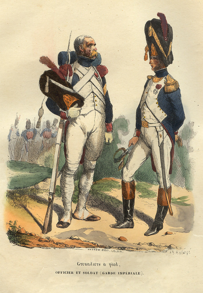 Soldier (left) and Officer (right) of the 1st Guard Grenadier Regiment.